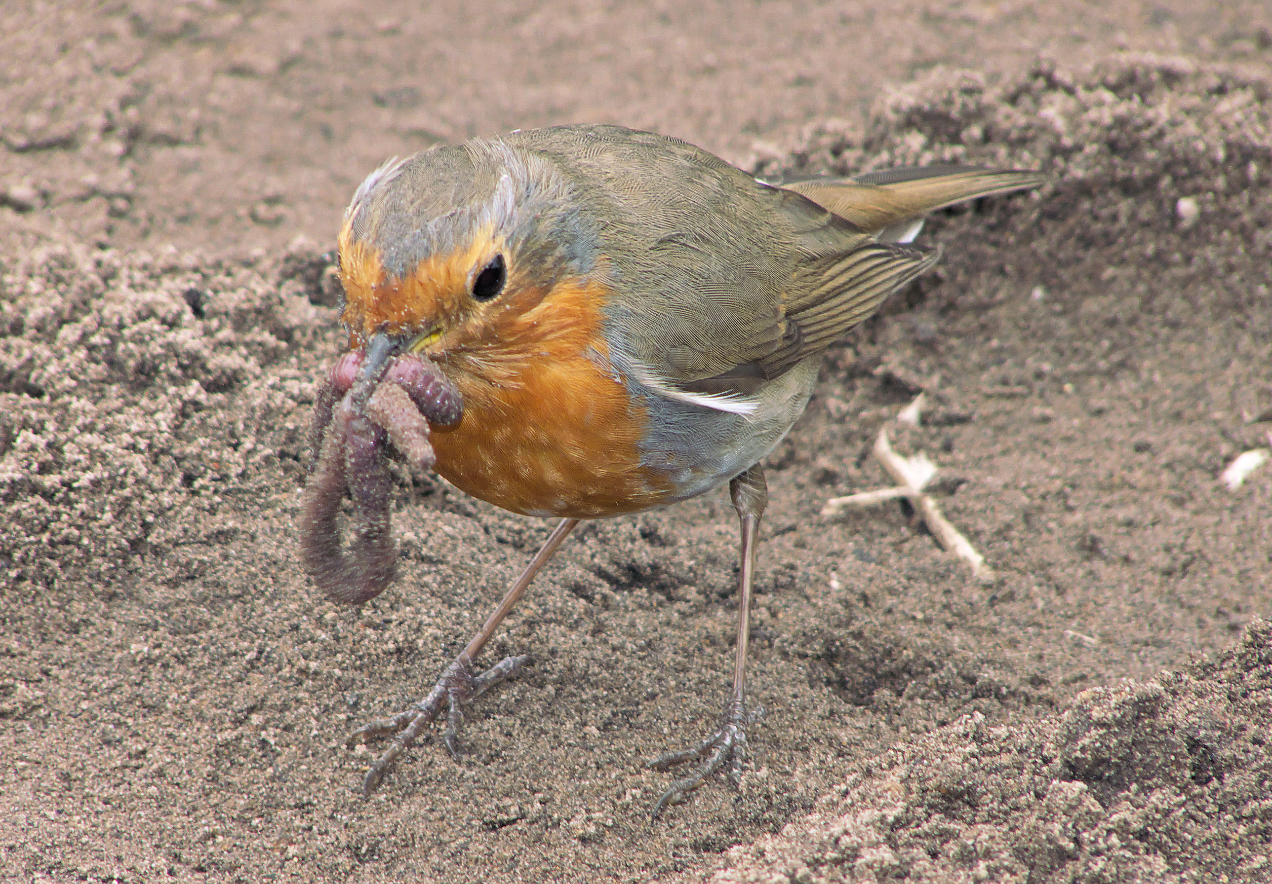 Erithacus rubecula with Lumbricus terrestris